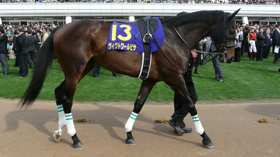 Victoire-Pisa20100418(1)